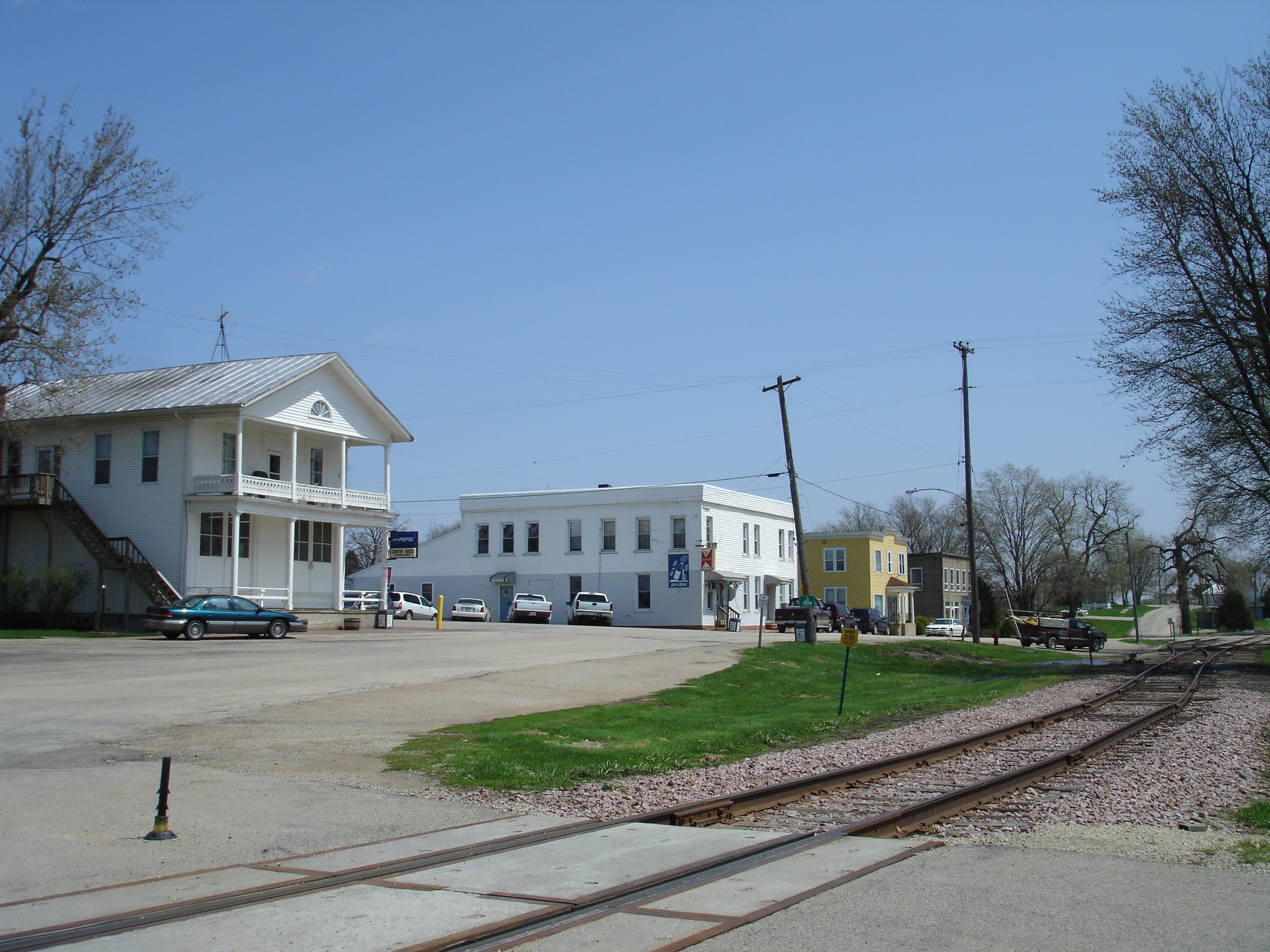 William Allan Store (far left), a part of the Scales Mound Historic District in Scales Mound, Illinois. Listed on the U.S. National Register of Historic Places.